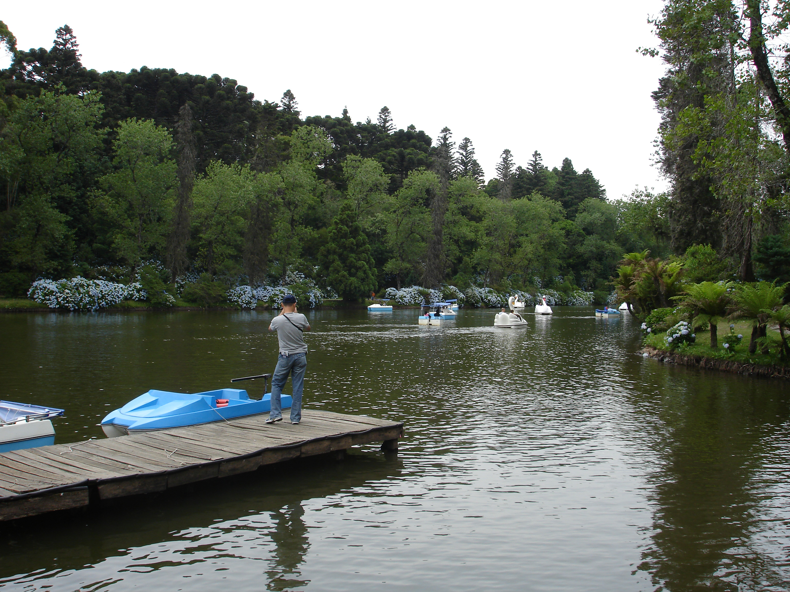 I take this picture in 29/12/05